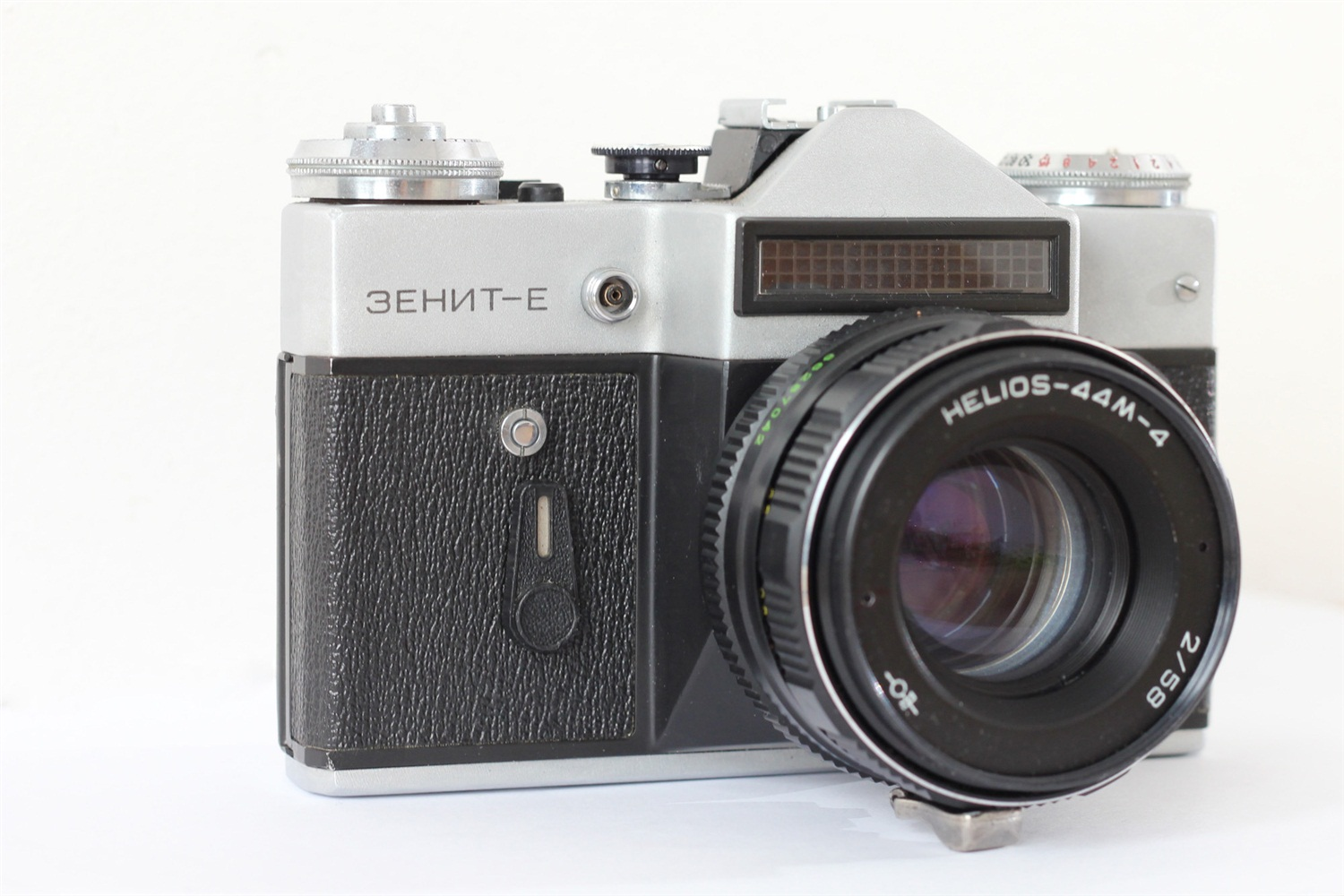 Zenit-E